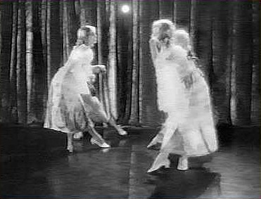 Yuri Khanon “L’Os de chagrin” (oc.38, 1990, “The Shagreen Bone” opera-interlude from the ballet “L’Os de chagrin”) - Passepied (danse)